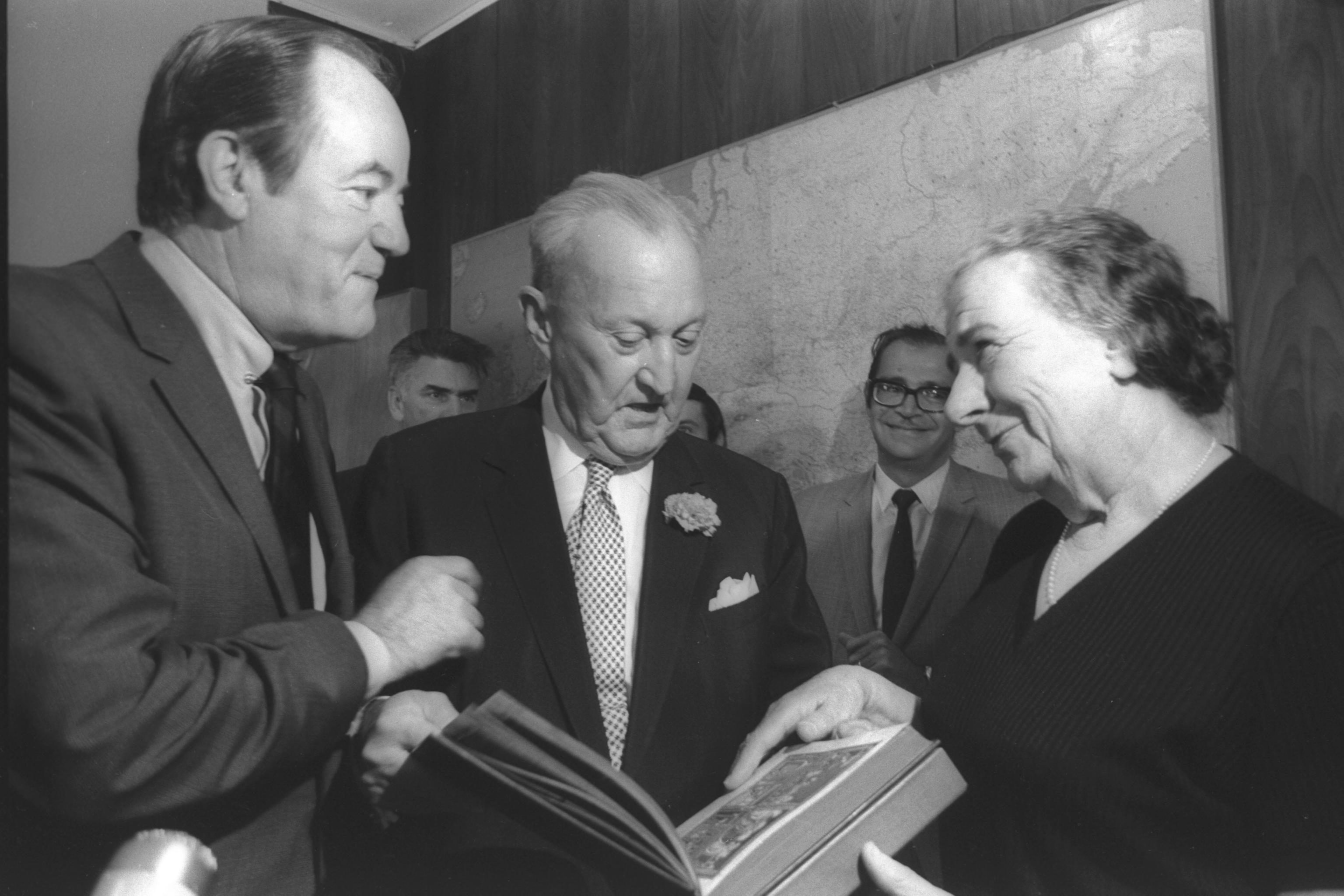 Former U.S. Vice-Pres. Humphrey, former Conn. Senator William Benton (C), presenting P.M. Mrs. Golda Meir with an illustrated Passover Hagada at the P.M.'s office, Jerusalem סגן נשיא ארהב, המפרי וסנטור ויליאם בנטון מציגים בפני רהמ גולדה מאיר הגדה מאוירת לפסח Photo: GPO, 05/04/1970